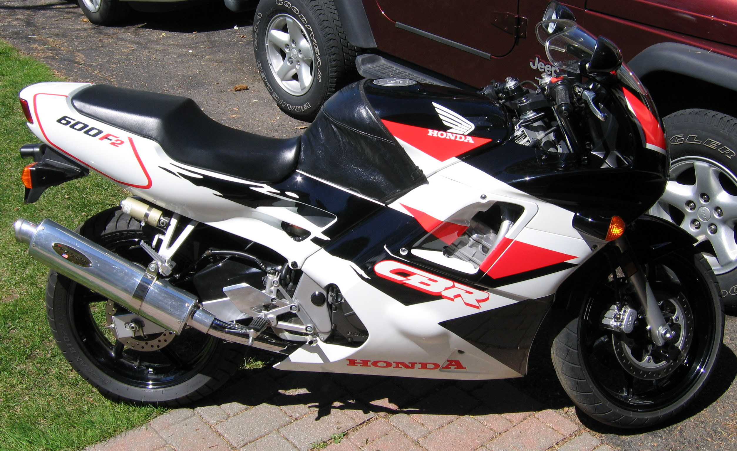 Author: Sean Keough Subject: 1994 Honda CBR 600 F2